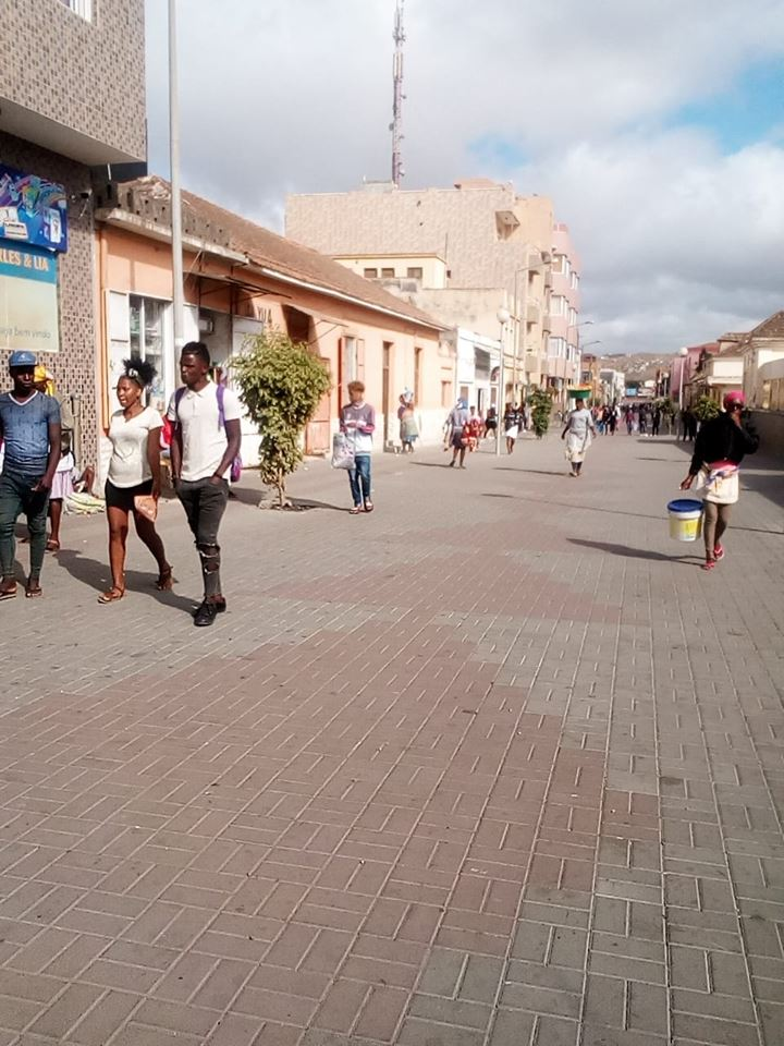 Pedestrian Street in Assomada